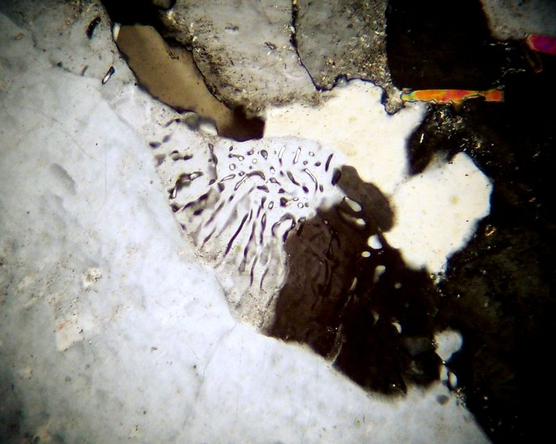 Myrmekite